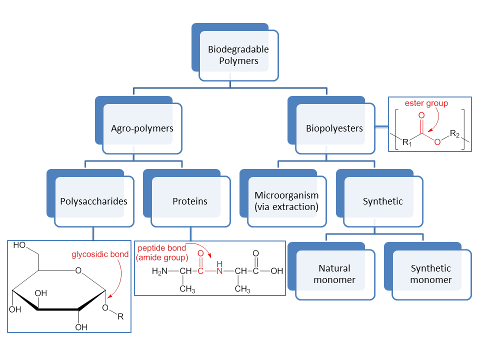 Biodegradable Polymers Flow Chart